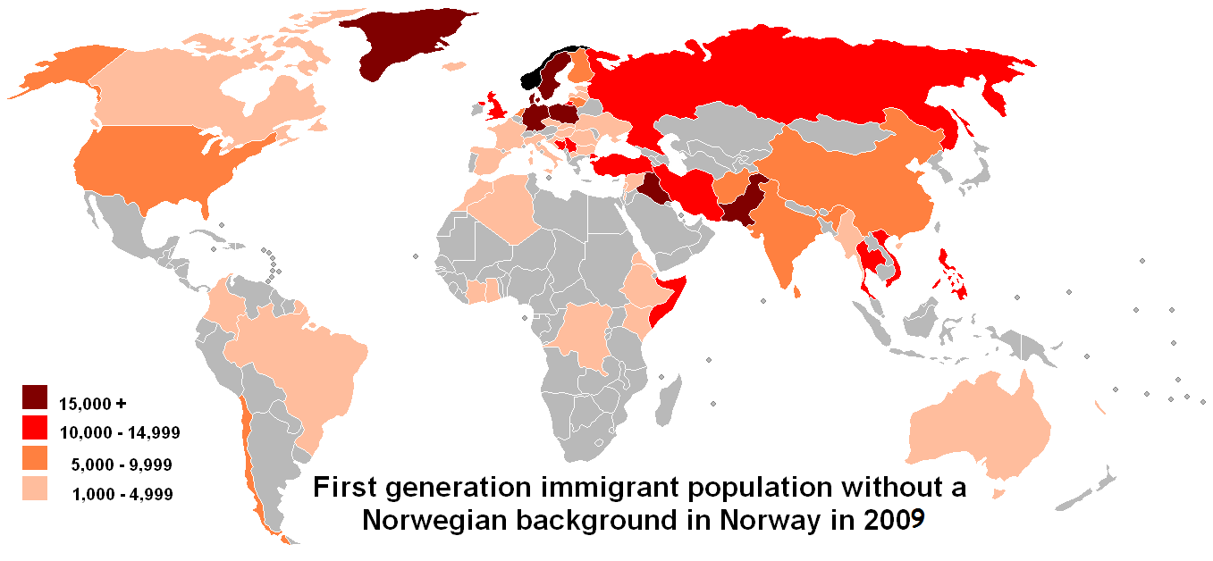 First generation immigrants without Norwegian background in Norway in 2007, by country